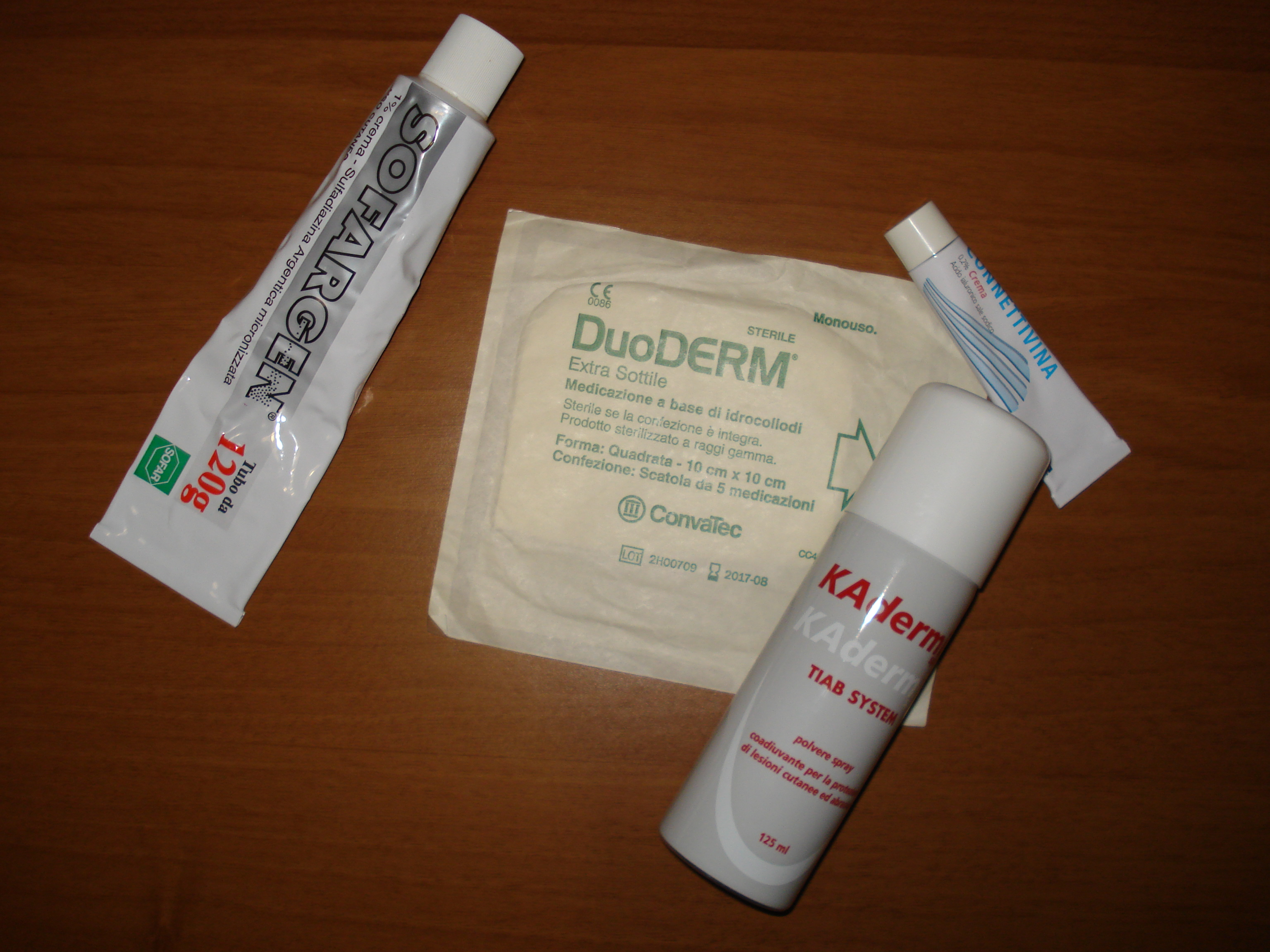 Wound care